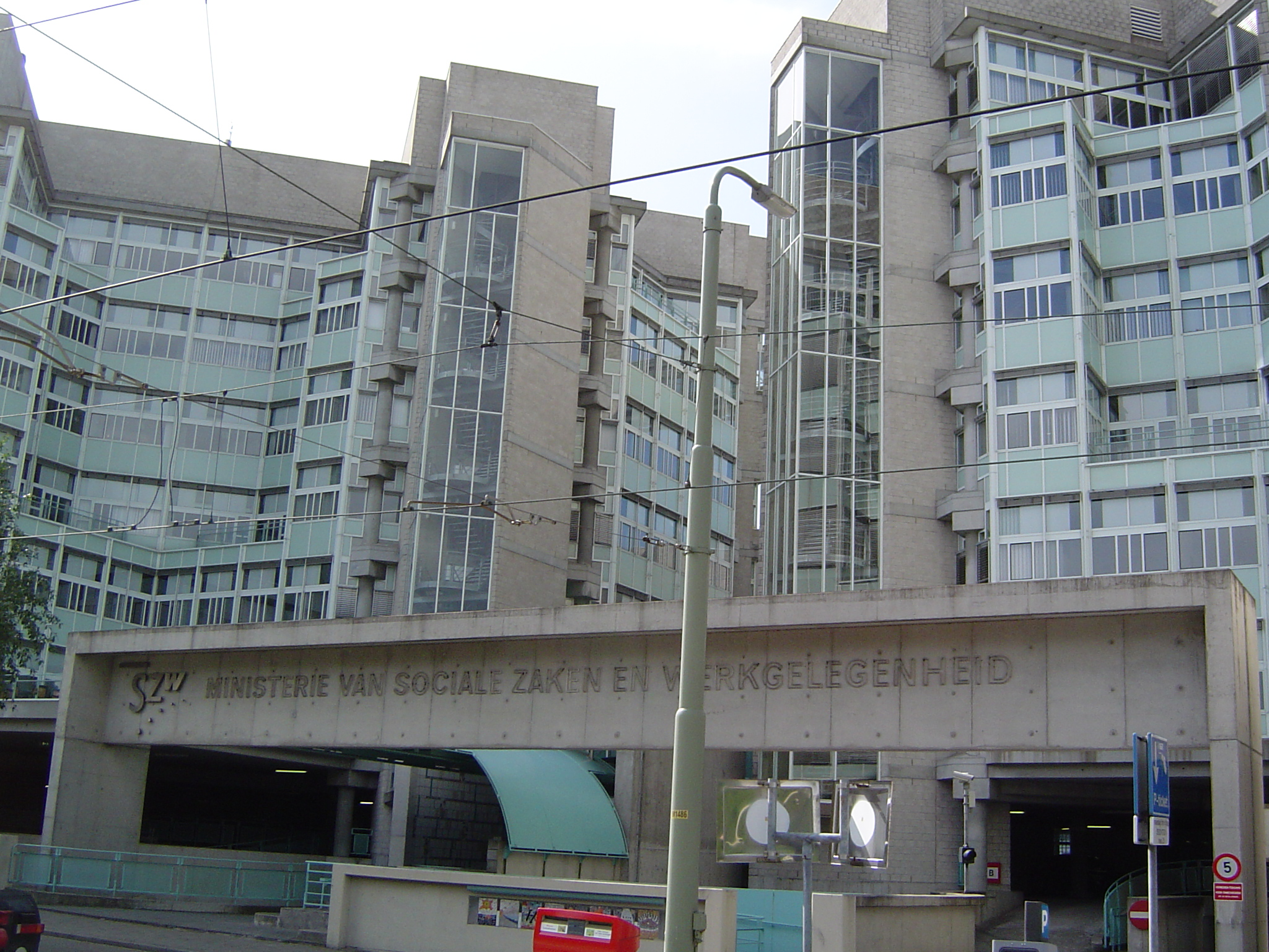 Ministerie Sociale Zaken, The Hague, Holland